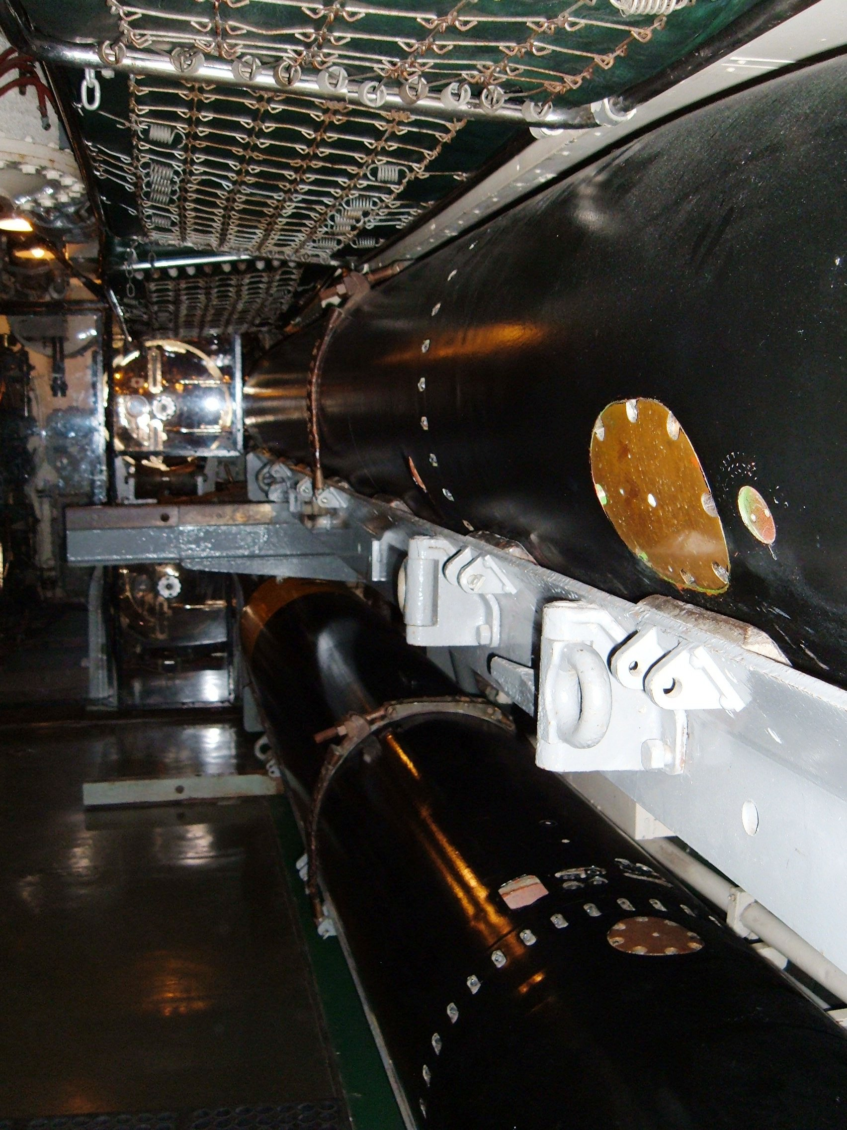 Half of the after torpedo room of the USS Pampanito (SS-383), berthed at Fisherman's Wharf in San Francisco. Enlisted bunks are located above two stored Mark XIV torpedoes. One of the stern torpedo tubes can be seen through the glass in the background.